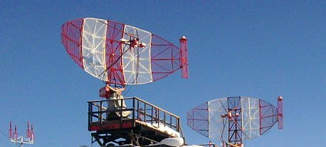 Air Traffic radar "DRL-7SM" located at the Ust-Kut Airport in Irkutsk Oblast, Russia